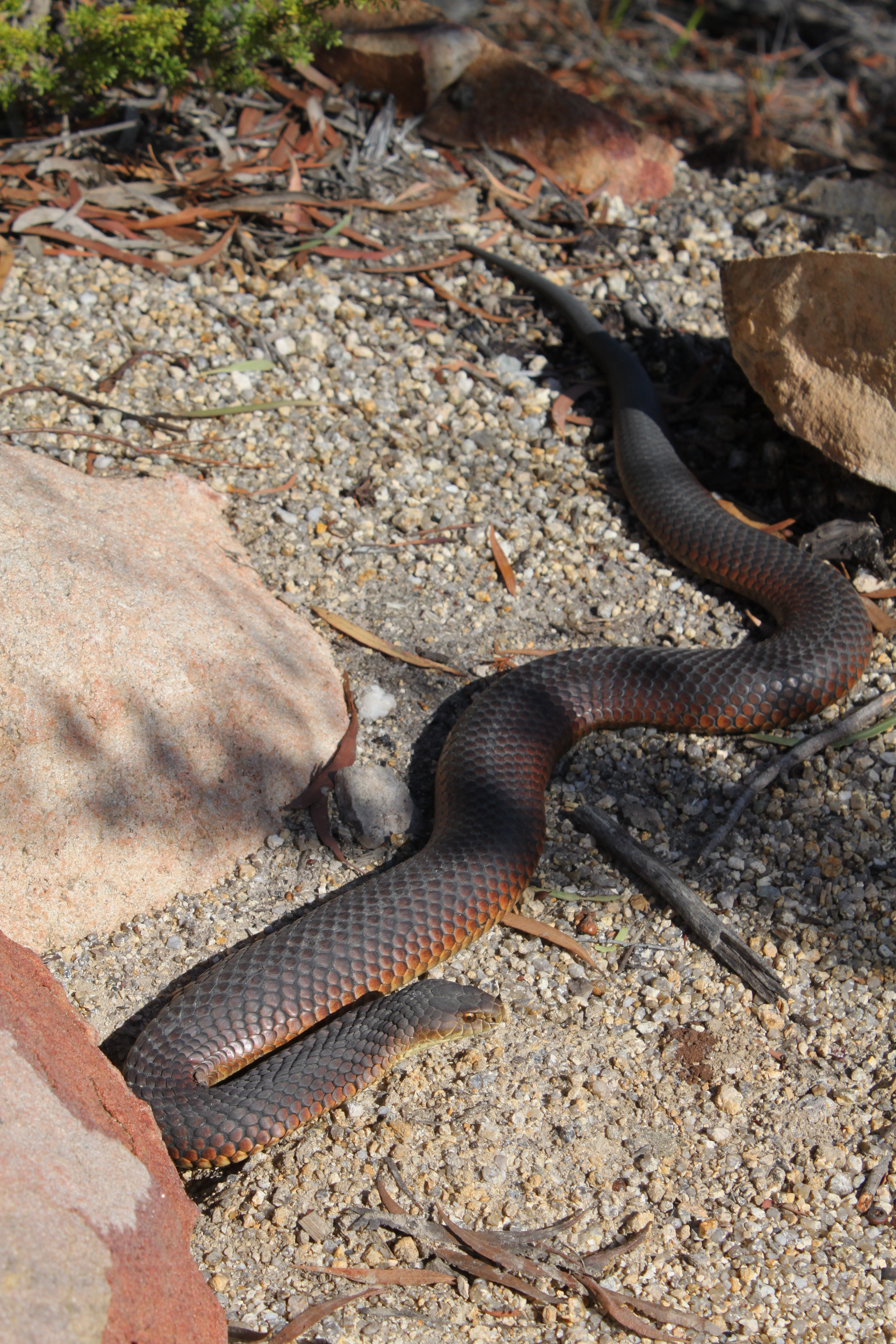 White-lipped snake, Drysdalia coronoides, in Tasmania.